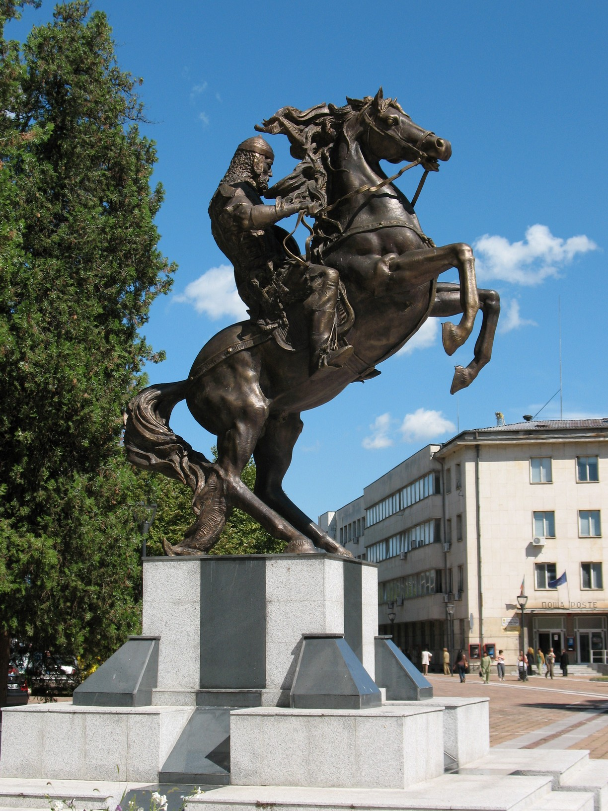 Monument to founder of Lovech